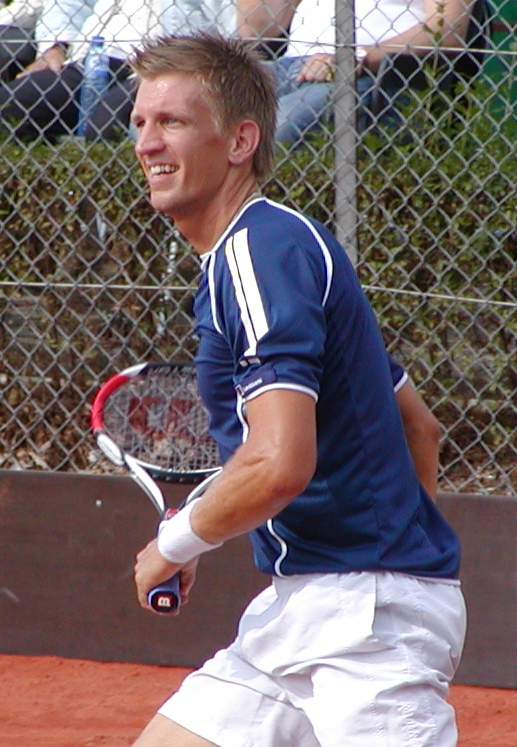 Finnish tennis player Jarkko Nieminen during the Danish Team Championships, which he won with his Danish club Kjøbenhavns Boldklub on September 7, 2008.